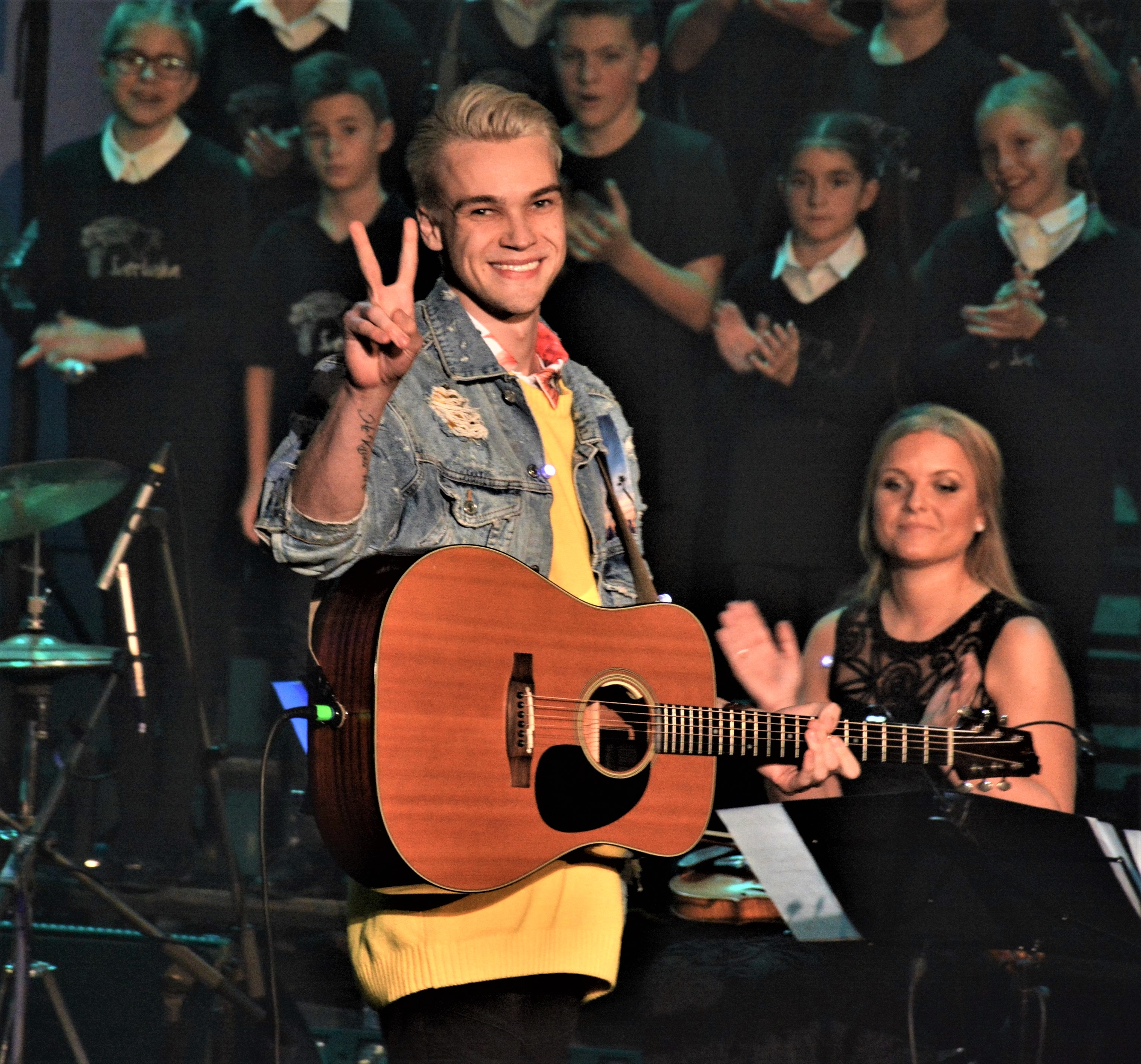 Mikolas Josef, Czech vocalist